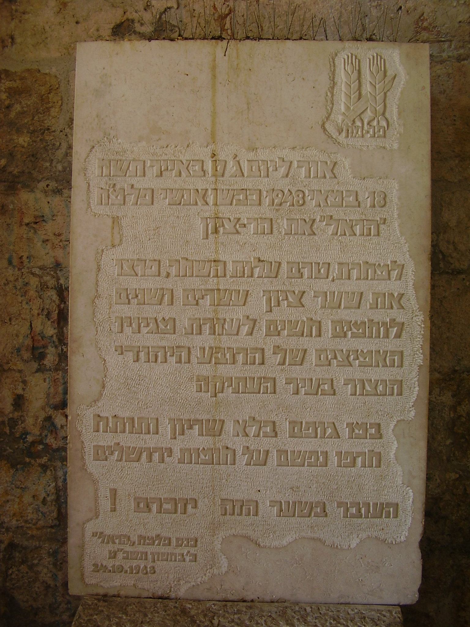 Zion Gate